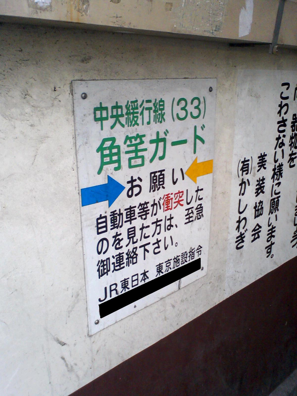 Information plate of Tsunohazu girder（角筈ガードの案内板）